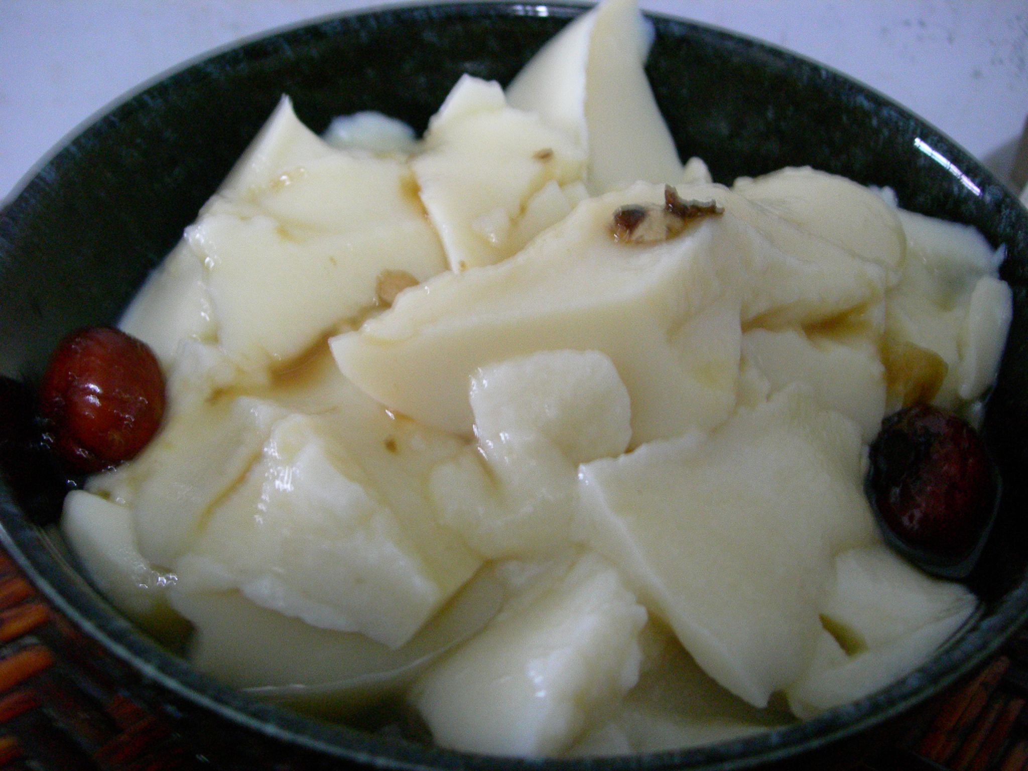 Taiwan food in Adonis Chen's photo